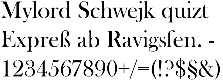 Typeface sample: Baskerville Old Face from Linotype Collection